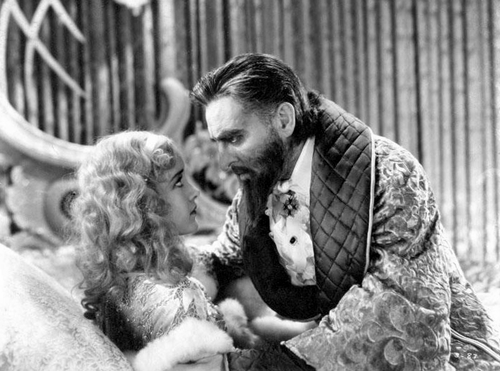 Promotional photograph for the film Svengali starring Marian Marsh and John Barrymore